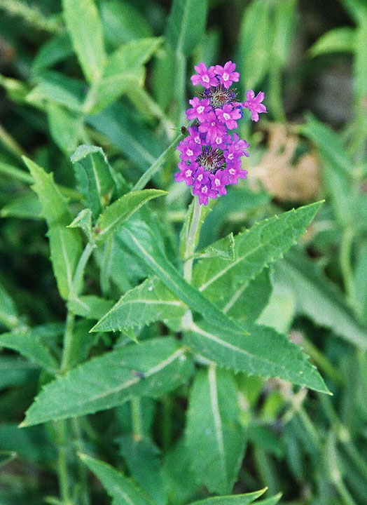 A scented garden favorite, known as Tuberous Vervain and as Sandpiper Verbena. The native range is from northeast Argentina to southeast Brazil. Photo from Iguazu area.